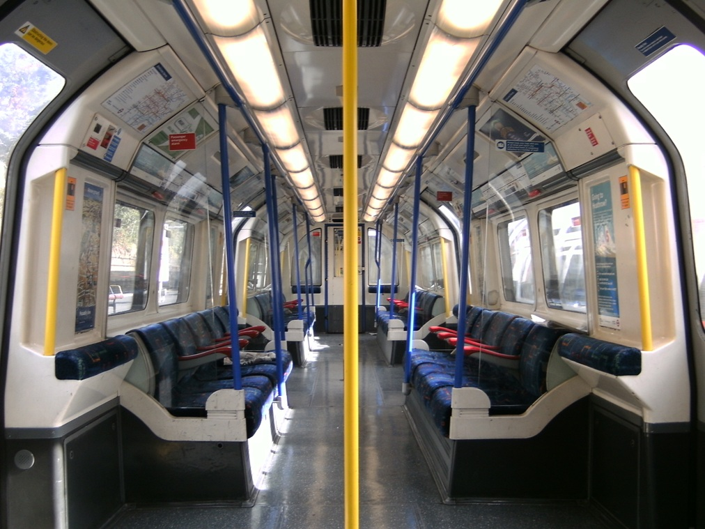 Interior of a train at the Piccadilly Line